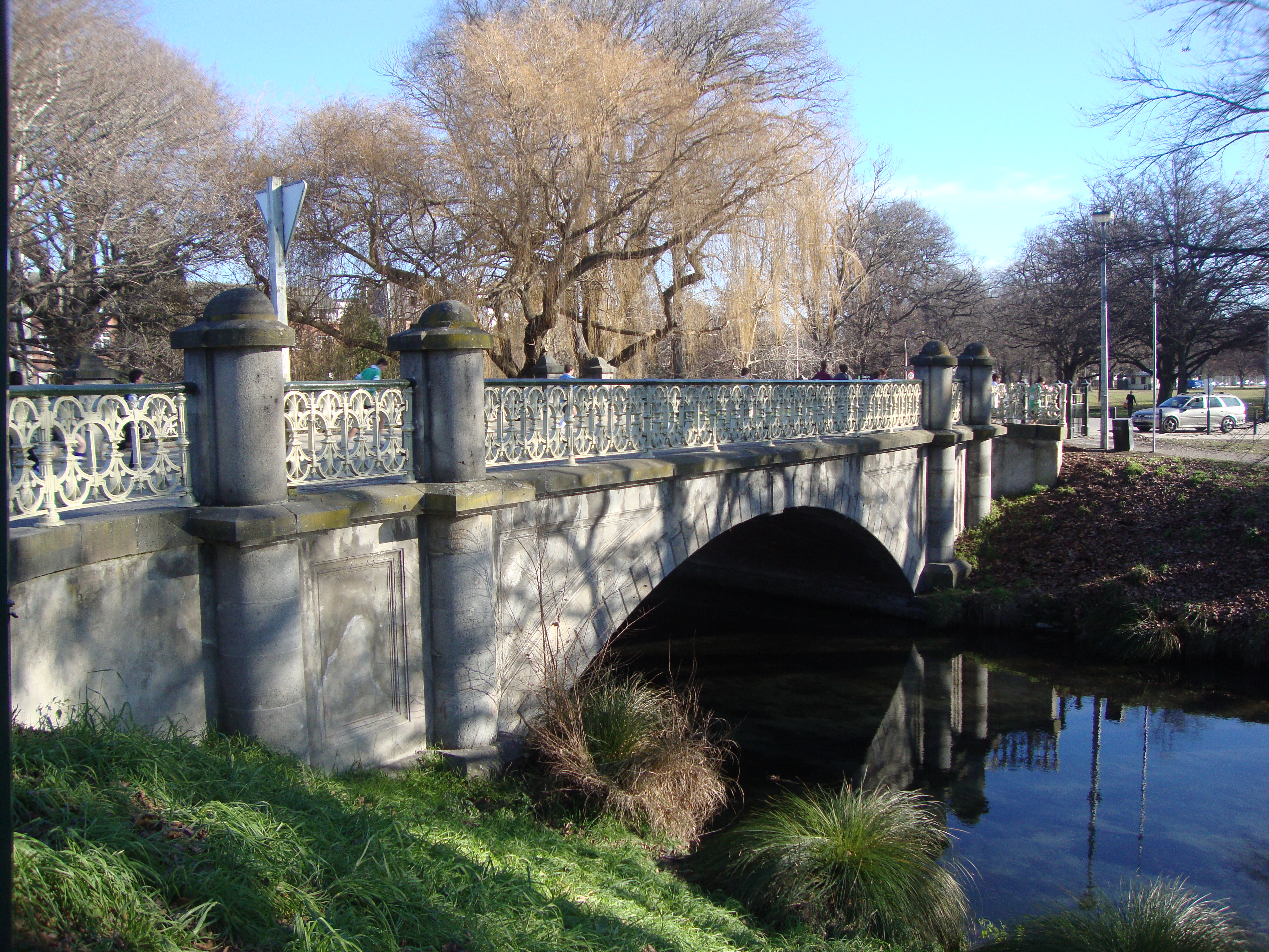 Armagh Street Park Bridge in August 2011.